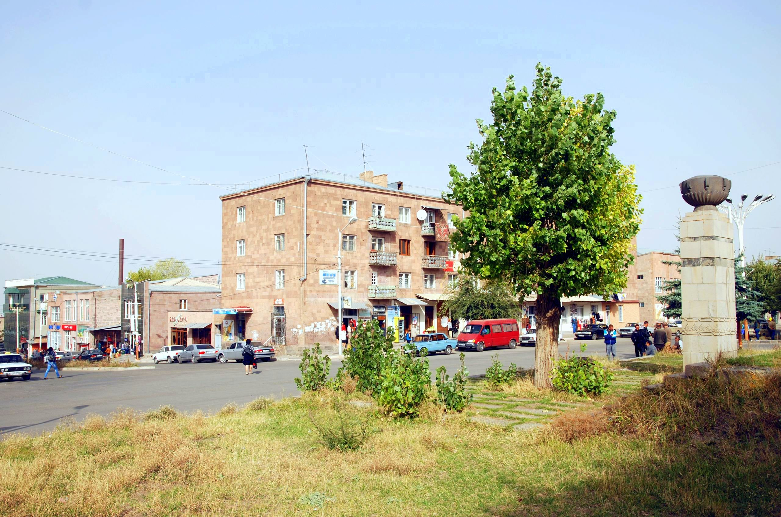 Artik town center